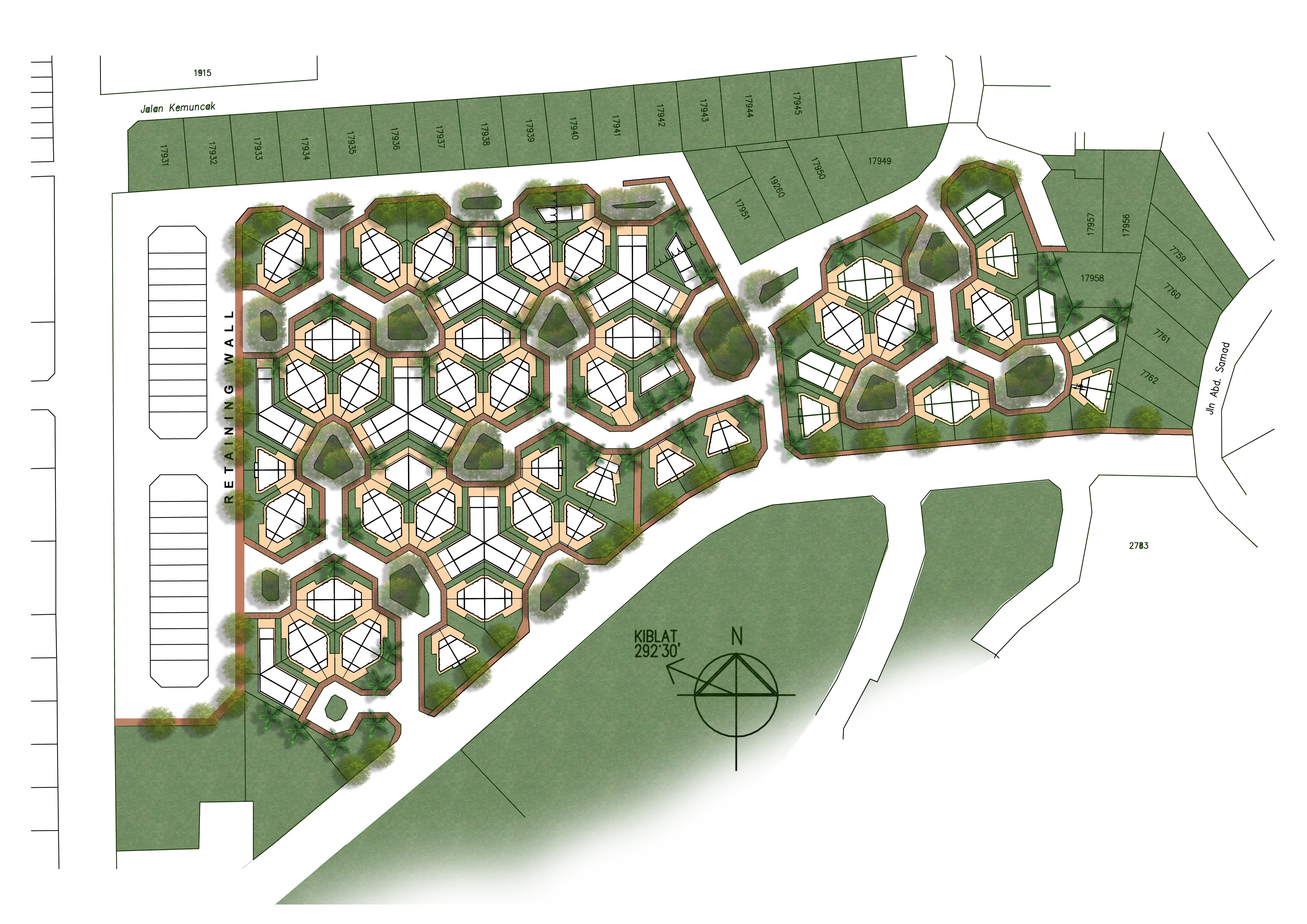 Layout of hillside Honeycomb housing project in Nong Chik, Johor Bahru